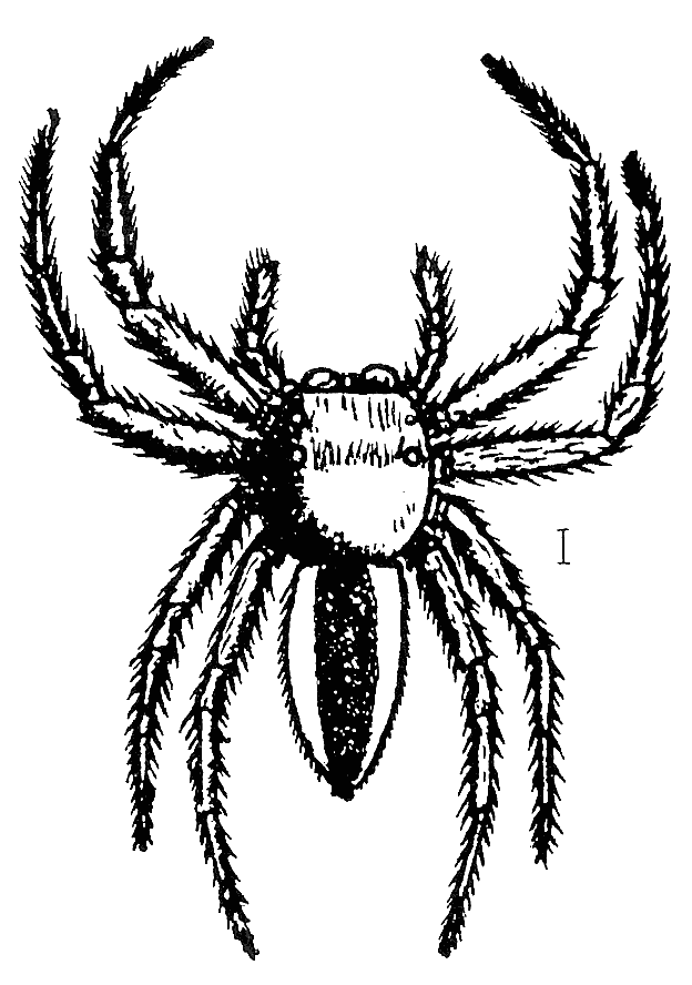 Phintella versicolor male, from Workman, 1896. Specimen from Pinang, Malaysia.